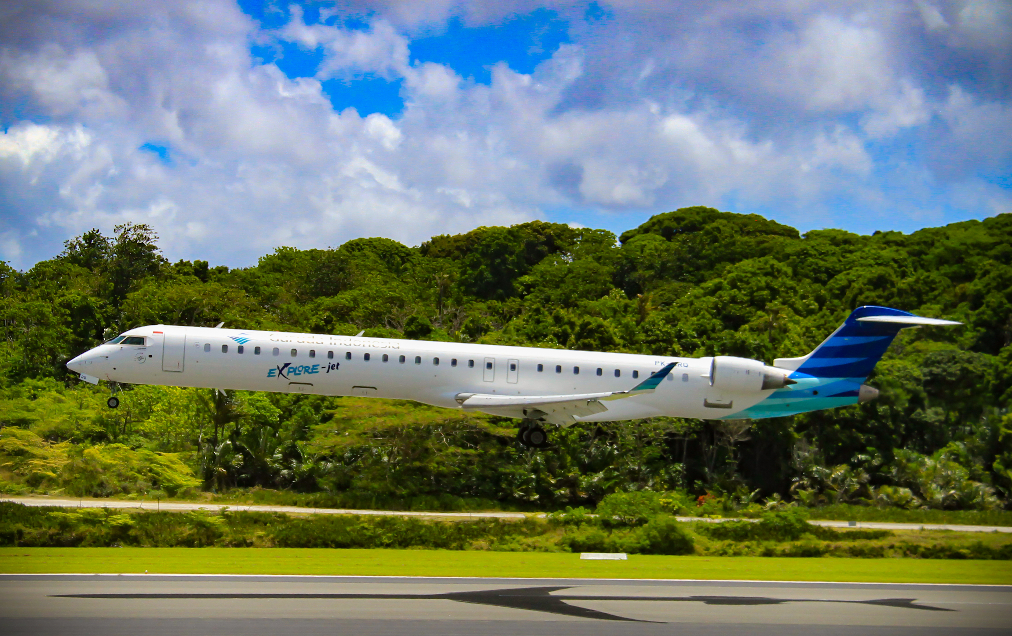 GA 7000 on final approach at Christmas Island International Airport.